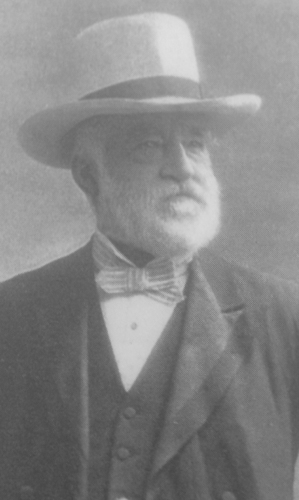 Club Secretary and defacto manager of Sheffield United FC from 1889 to 1899. Also secretary of Yorkshire County Cricket Club until 1902